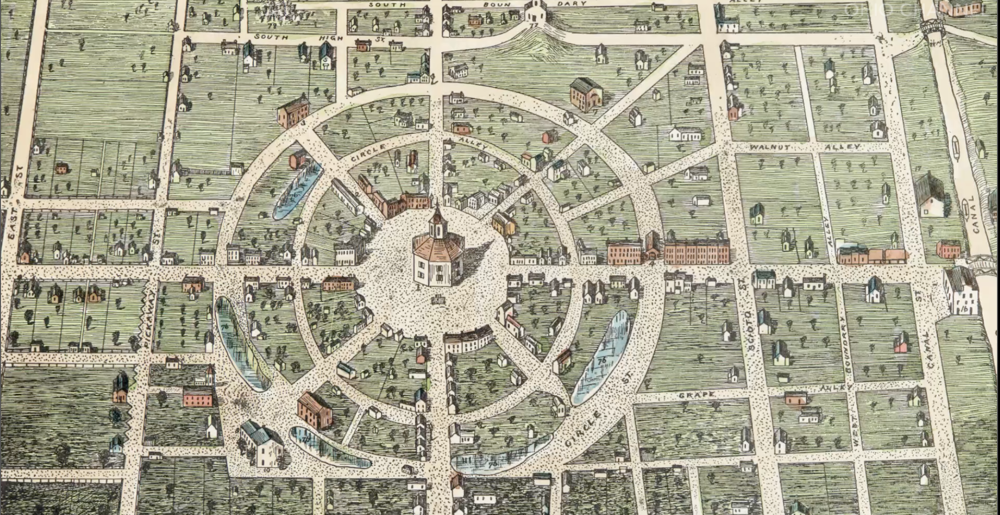 Map of Circleville in watercolor from c. 1836.